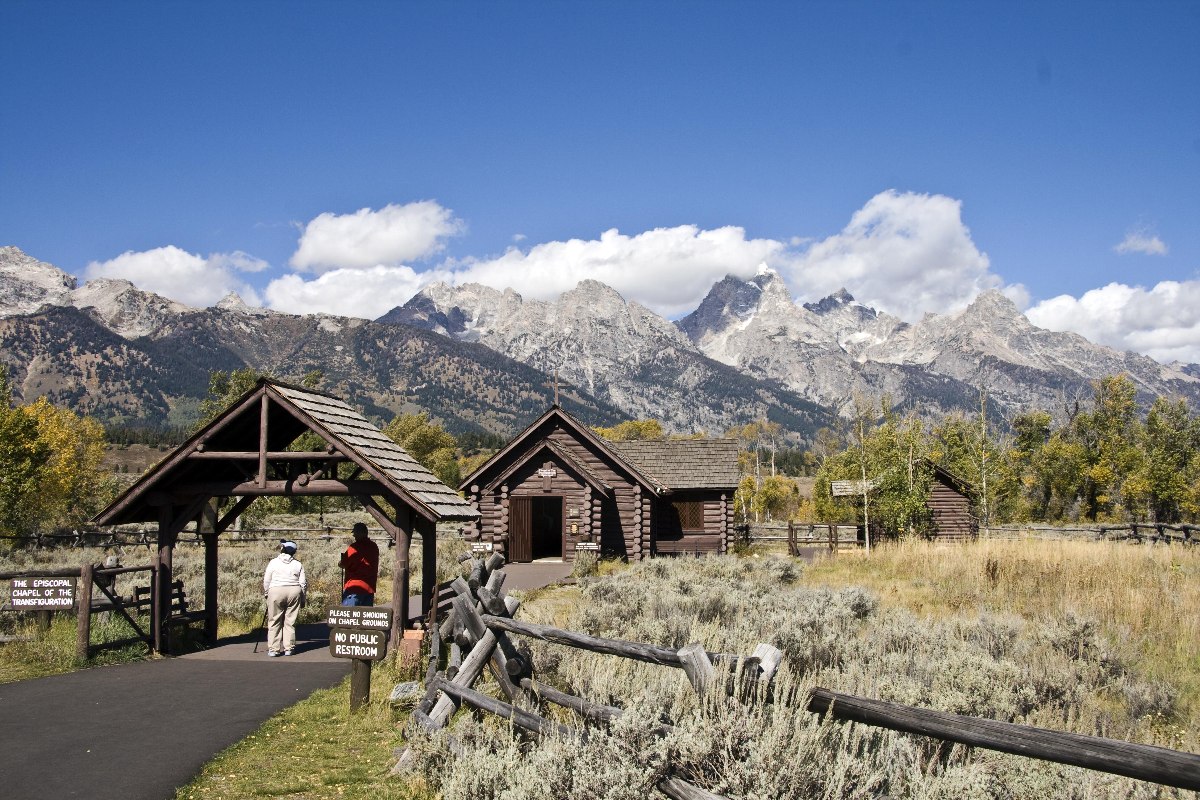 Chapel of the Transfiguration in Grand Teton National Park, Wyoming, USA. Listed on the National Register of Historic Places.